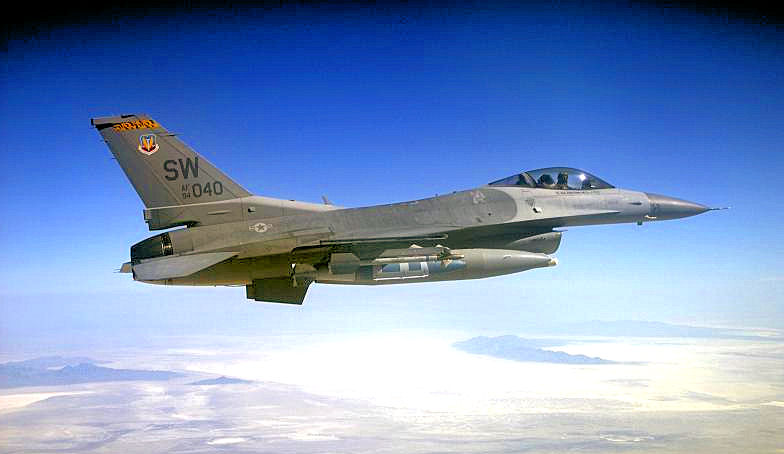 USAF F-16C block 50 #94-0040 from the 79th FS flies a mission over the Utah Test and Training Range during Exercise Combat Hammer, conducted at Hill AFB. The aircraft is armed with a 1,000-pound GBU-31 JDAM and an AIM-9 Sidewinder missile on August 6th, 2002. [USAF photo by TSgt. Michael Ammons]